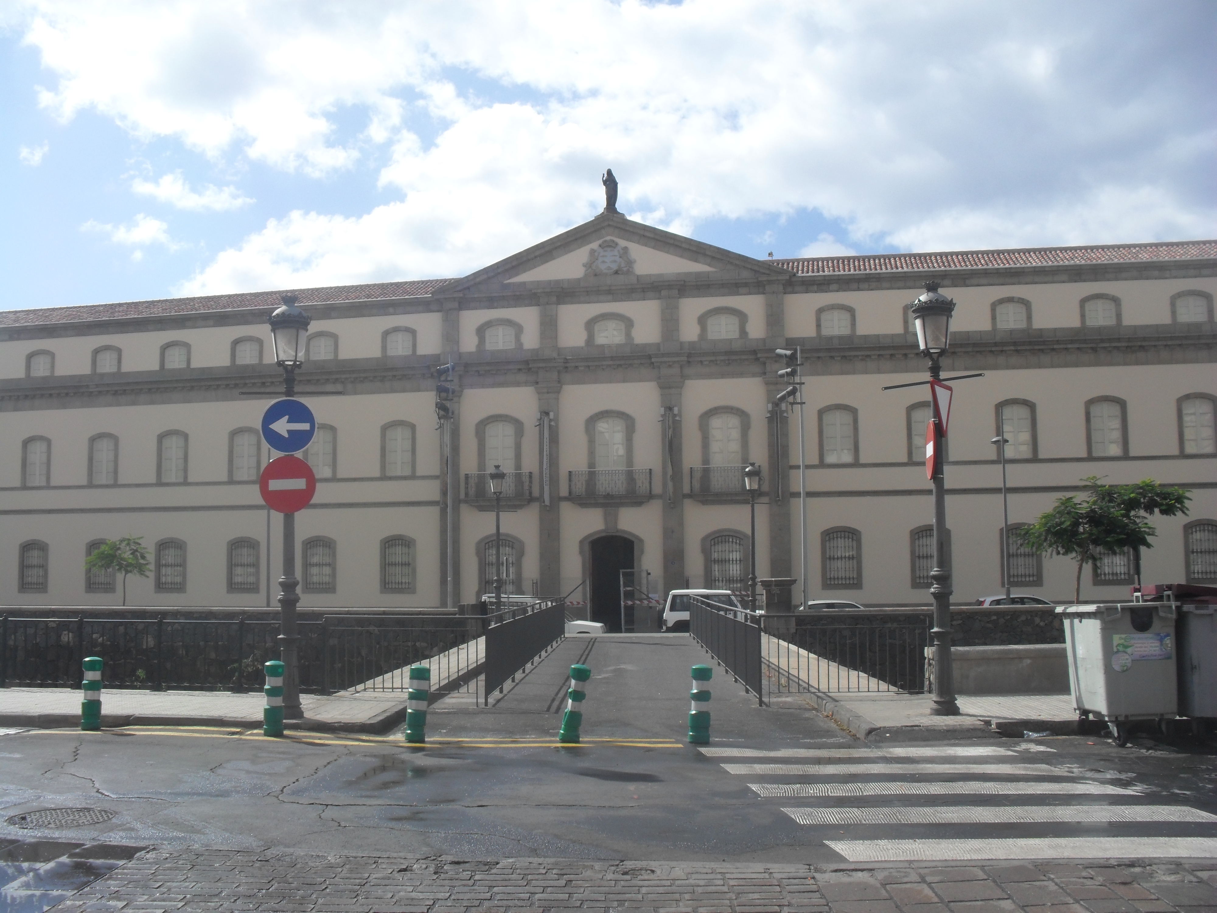 Fachada del Museo de la Naturaleza y el Hombre, Santa Cruz de Tenerife.